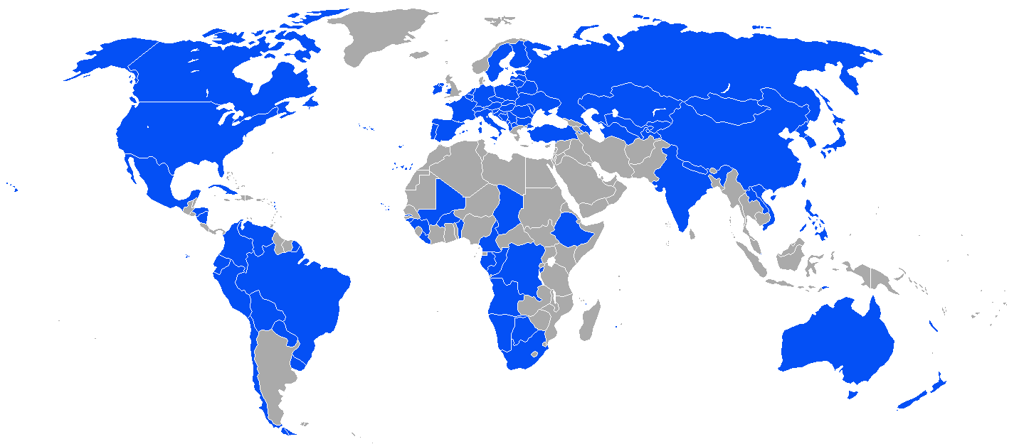 Map marking the secular states of the world, based on the List of secular states on English Wikipedia on the day this image was uploaded.